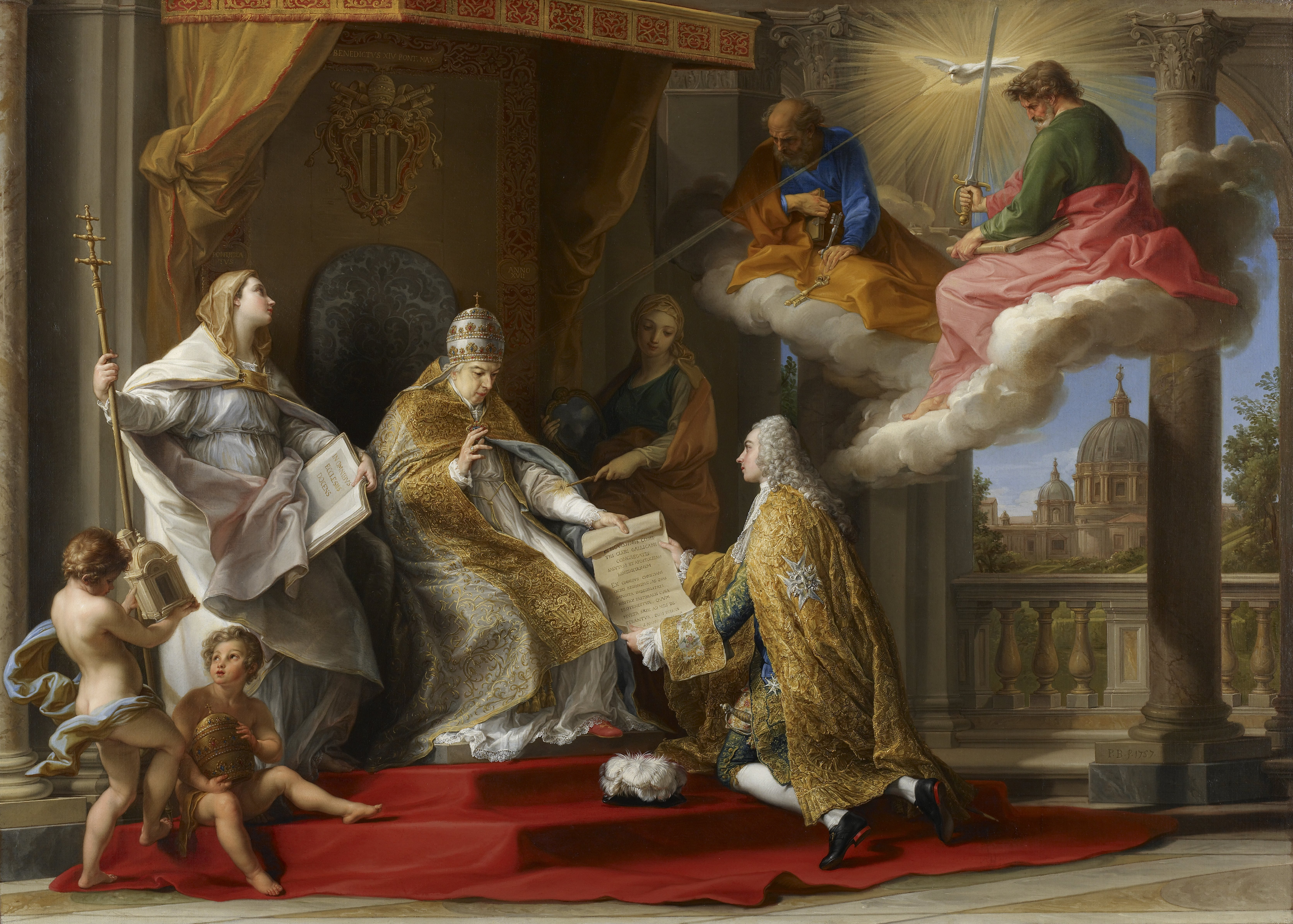 1756 - Benedict XIV Presenting Ex Omnibus to Choiseul.